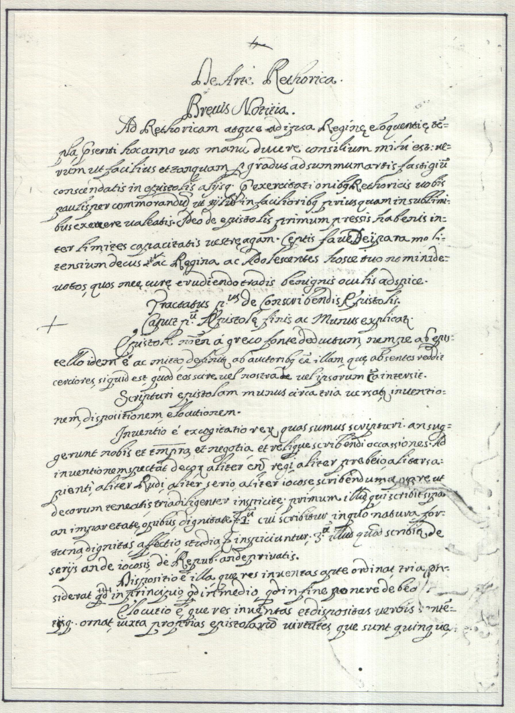 Frontispiece